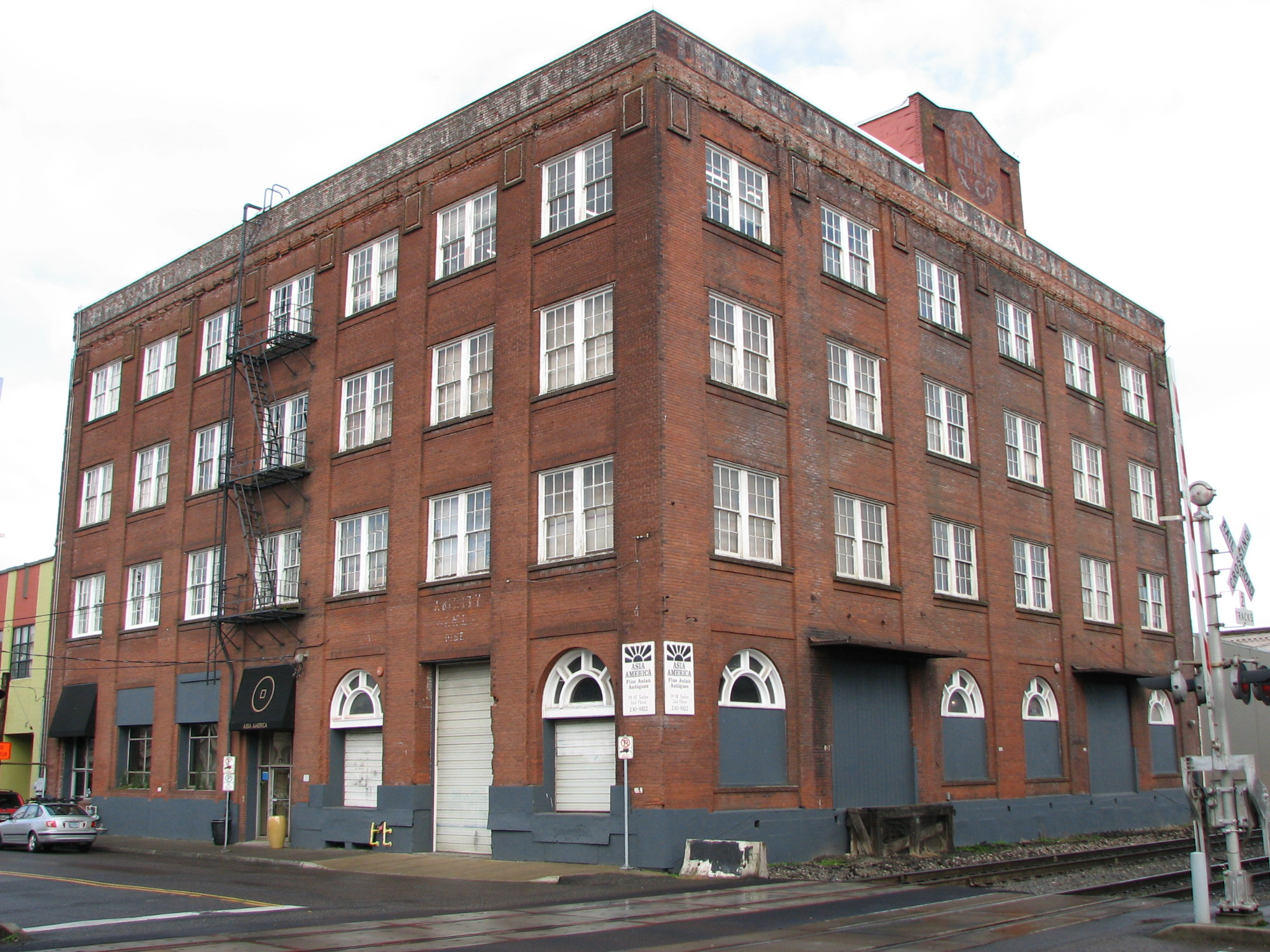 The historic International Harvester Warehouse (built 1912), located at 79 Southeast Taylor Street in Portland, Oregon, is listed on the US National Register of Historic Places.